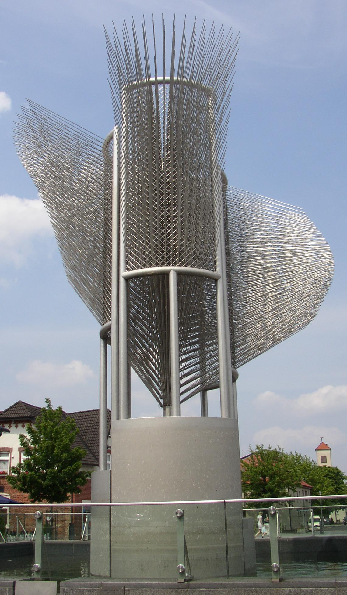 Fountain by Wolfgang Zach in Zeven in Lower Saxony, Germany